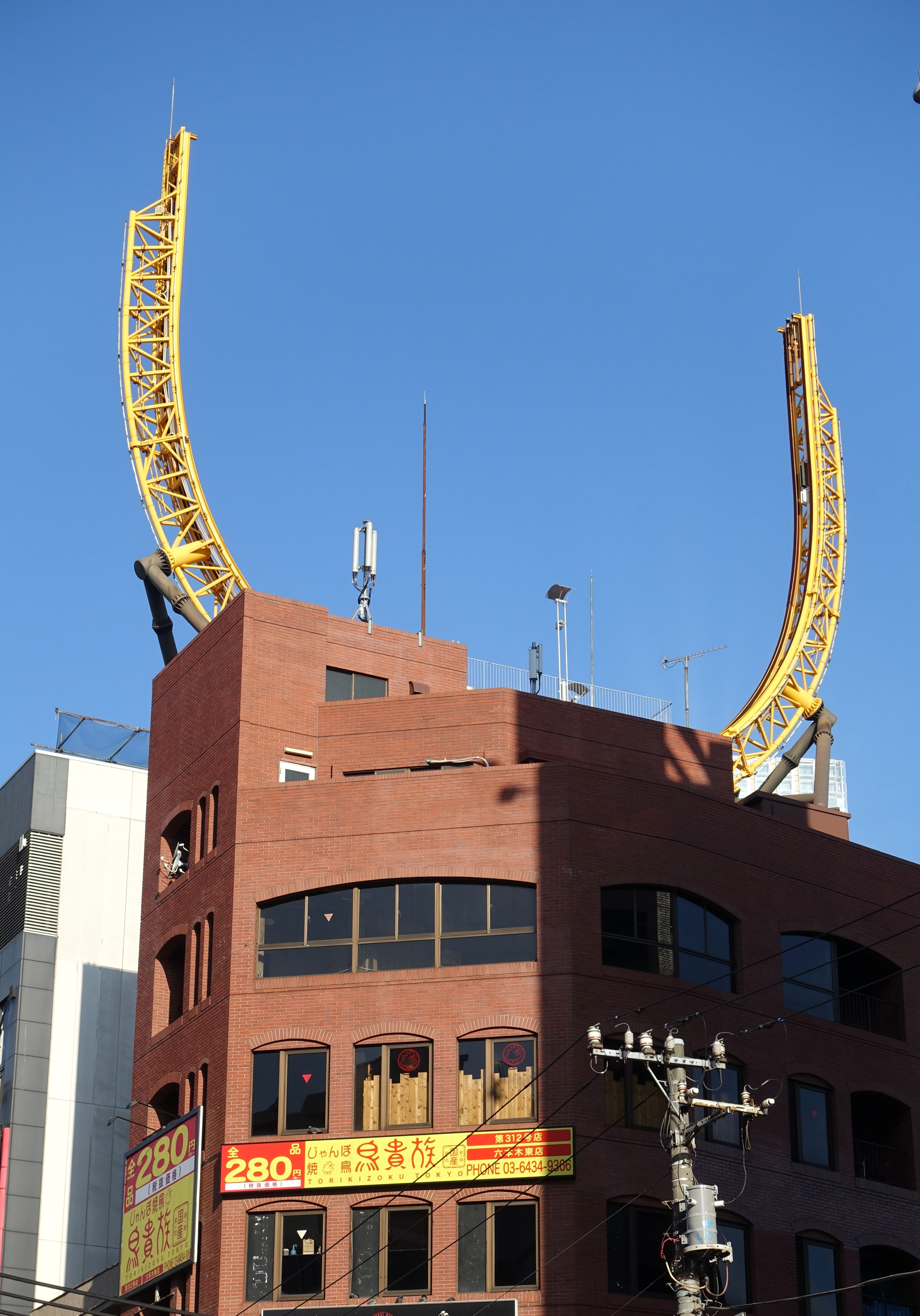 Half Pipe (roller coaster) - Roppongi, Tokyo, Japan.